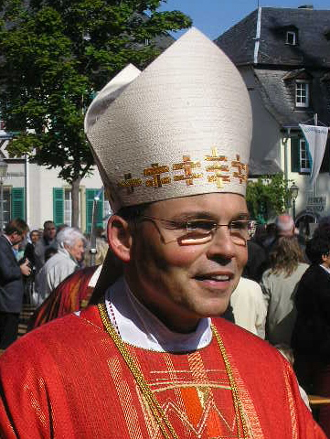 Franz-Peter Tebartz-van Elst, Bishop of Limburg during the "Kreuzfest" 2008 in Geisenheim/ Germany